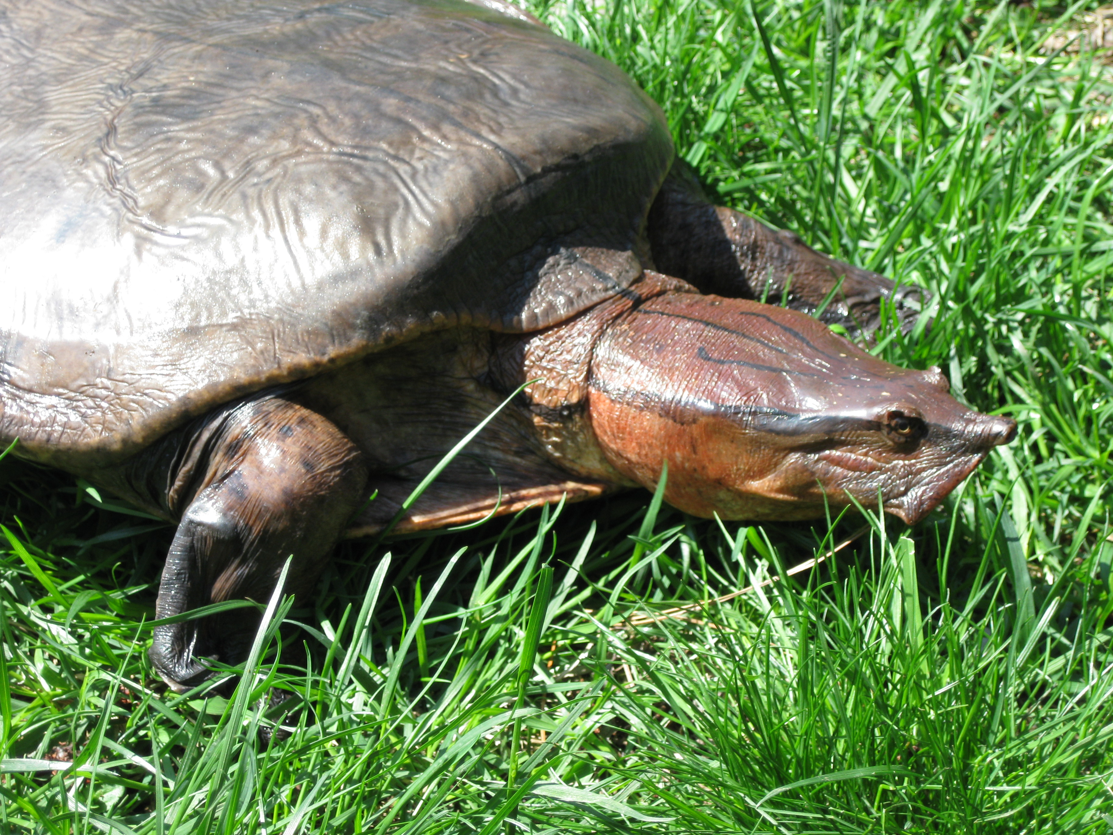 Photo credit to Tomas Diagne / African Chelonian Institute The United States and eight African nations have submitted a proposal to include six species of African and Middle Eastern softshell turtles in Appendix II of CITES.